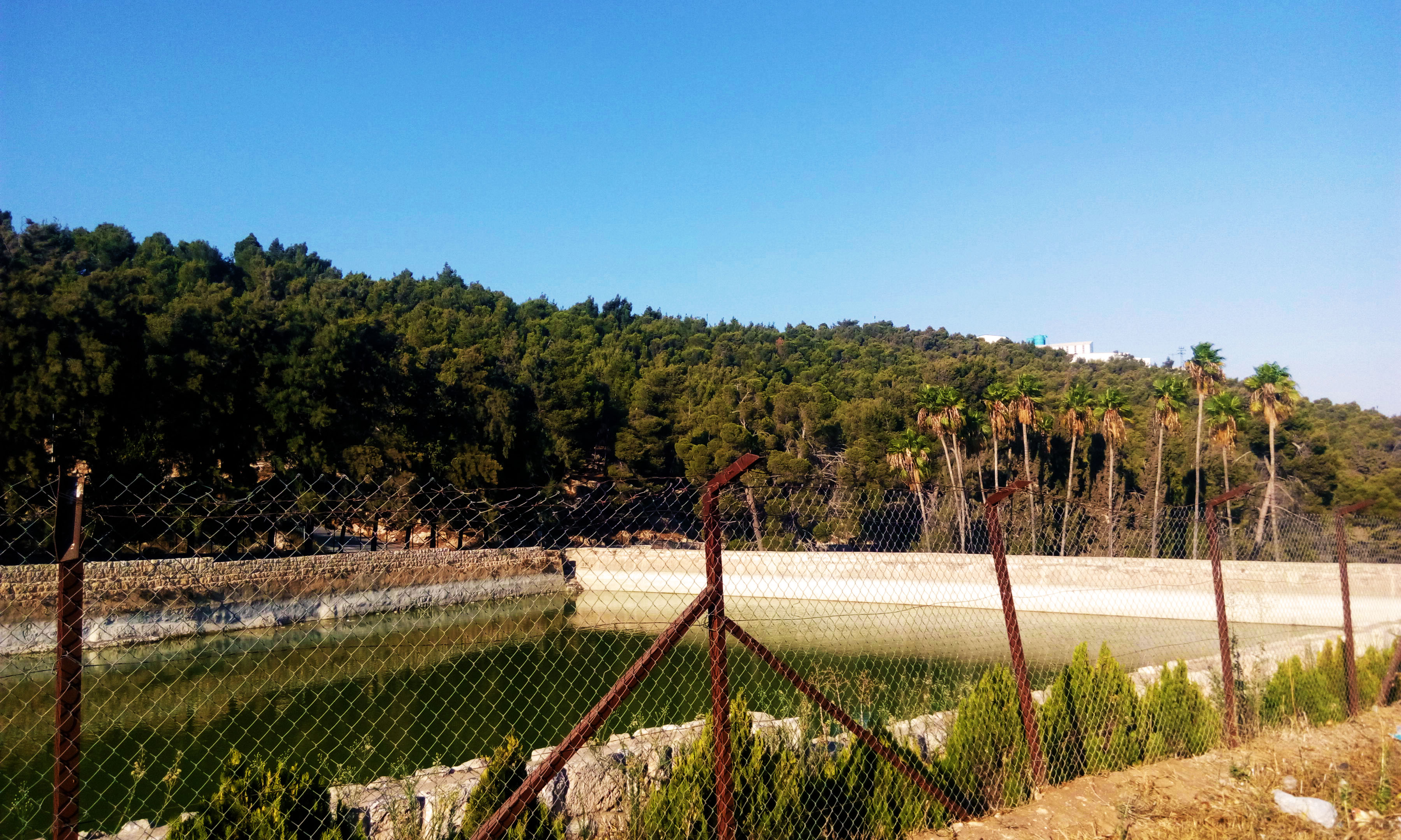 One of Solomon's pools in Palestine